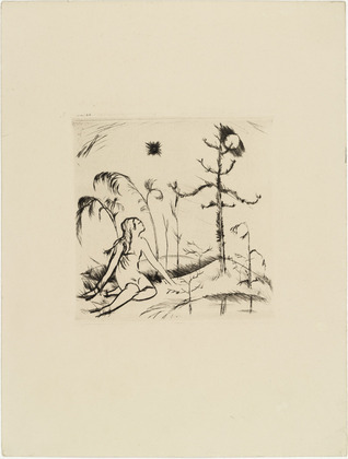 Kneeling Girl (Knieendes Mädchen) (plate, loose leaf) from the periodical Das Kunstblatt, vol. 1, no. 12 (Dec 1917) Drypoint, plate: 5 1/16 x 5 1/16" (12.9 x 12.9 cm); sheet: 11 1/8 x 8 7/16" (28.3 x 21.5 cm). Publisher: Verlag Gustav Kiepenheuer, Weimar. Edition: Deluxe edition: 110. Transferred from the Museum Library